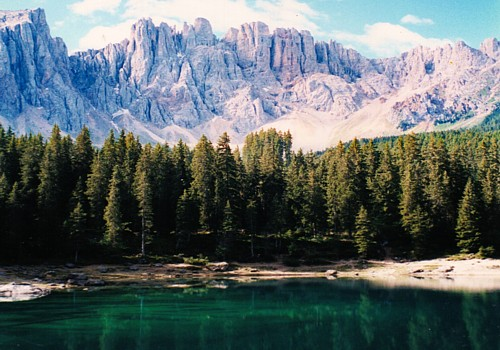 Karersee, South Tyrol